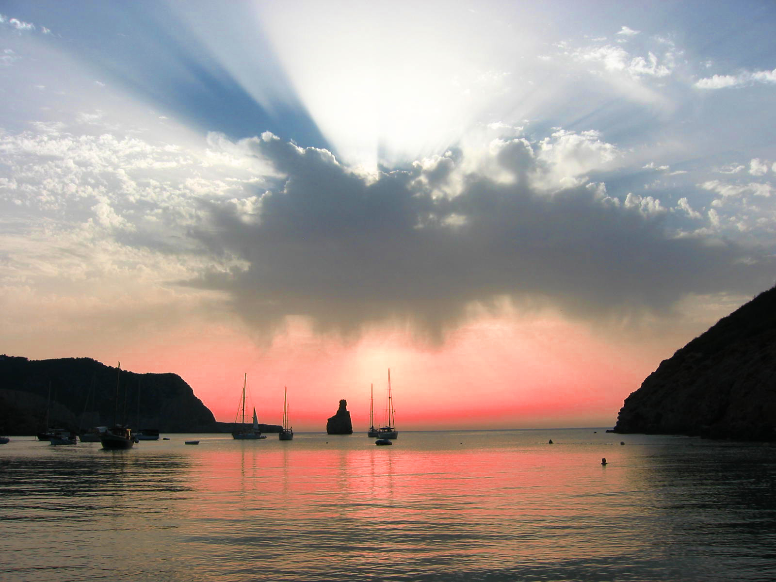 Sunset on Ibiza Bildbeschreibung: Sonnenuntergang auf Ibiza Quelle: "selbst fotografiert" Fotograf/Zeichner: ADC